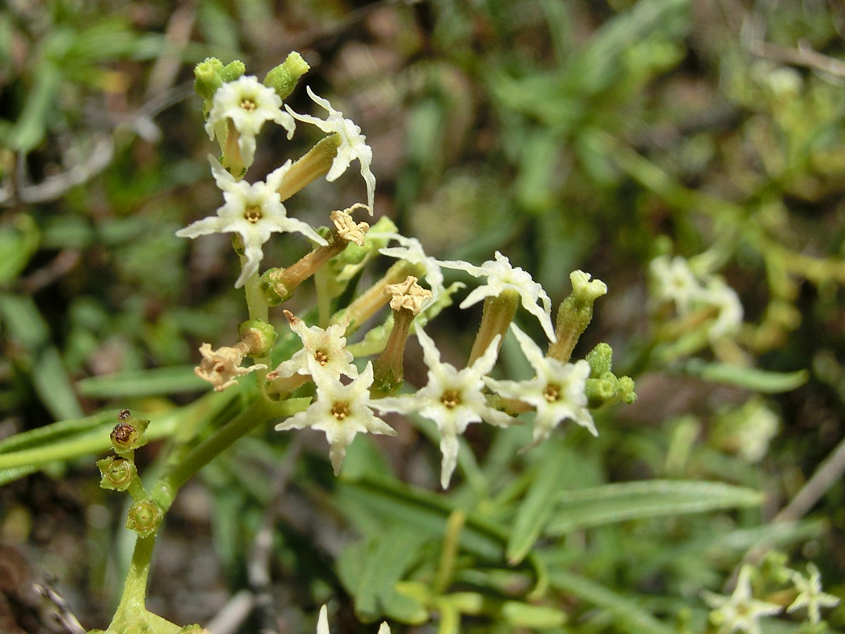 Ceballosia fruticosa var. angustifolia, flowers. NW Tenerife, Teno Bajo near Punta de Teno, open coastal succulents shrubland, ca. 20 m above sea level.